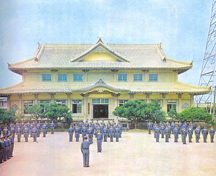 Inspection of Ryukyu Police